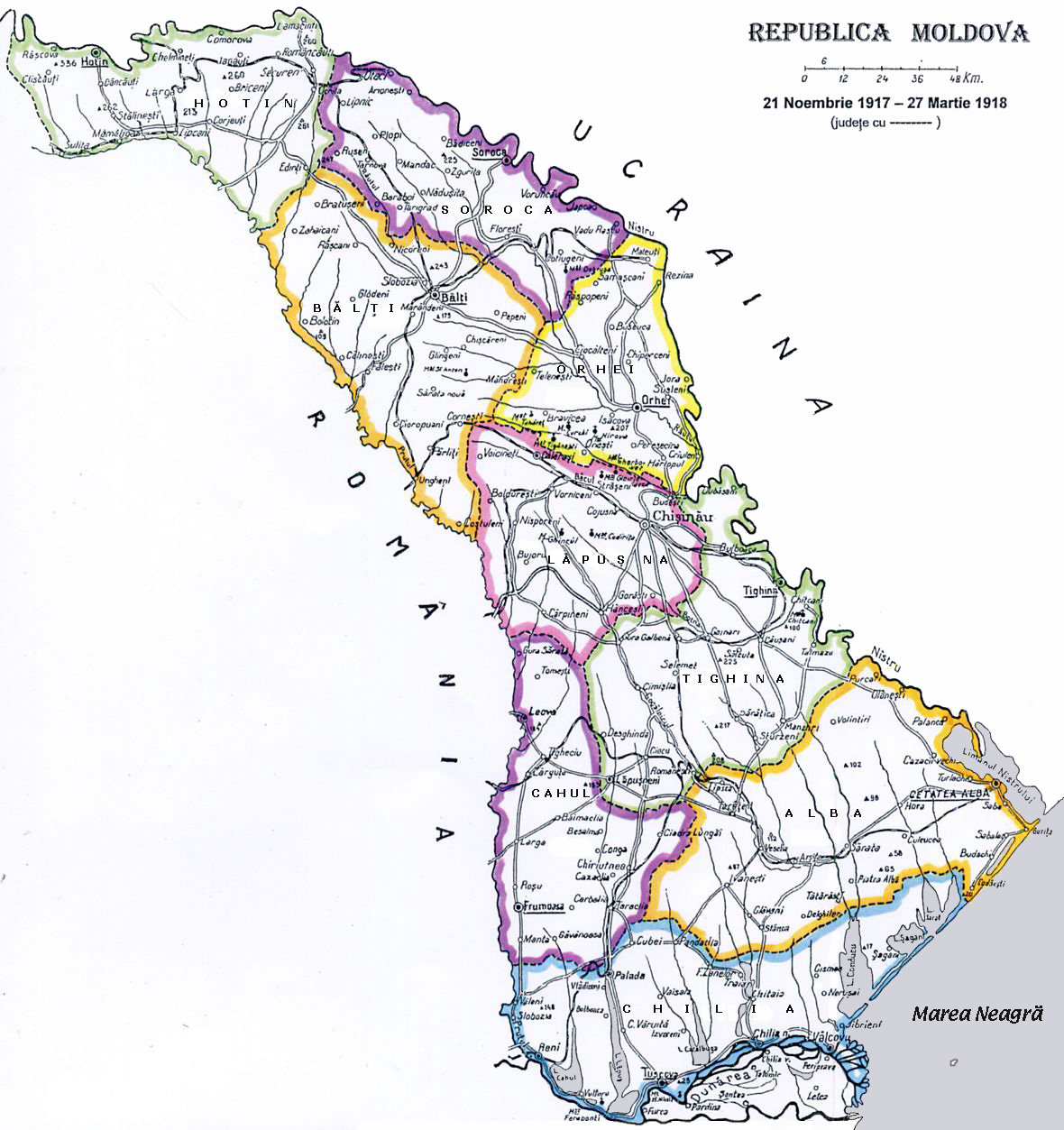 Map of the first Republic of Moldova 1917